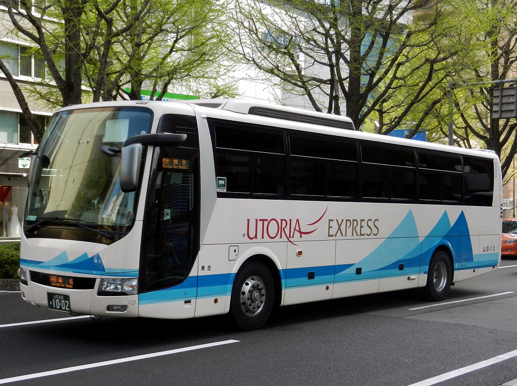 UD trucks Space Arrow A (BKG-AS96JP)Highwaybus "Yamagata-Sendai"